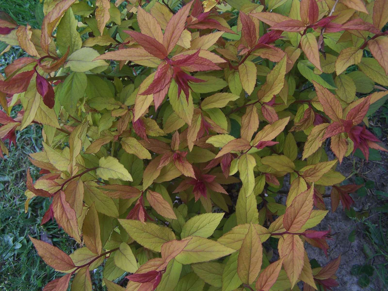 Spiraea japonica 'Anthony Waterer'